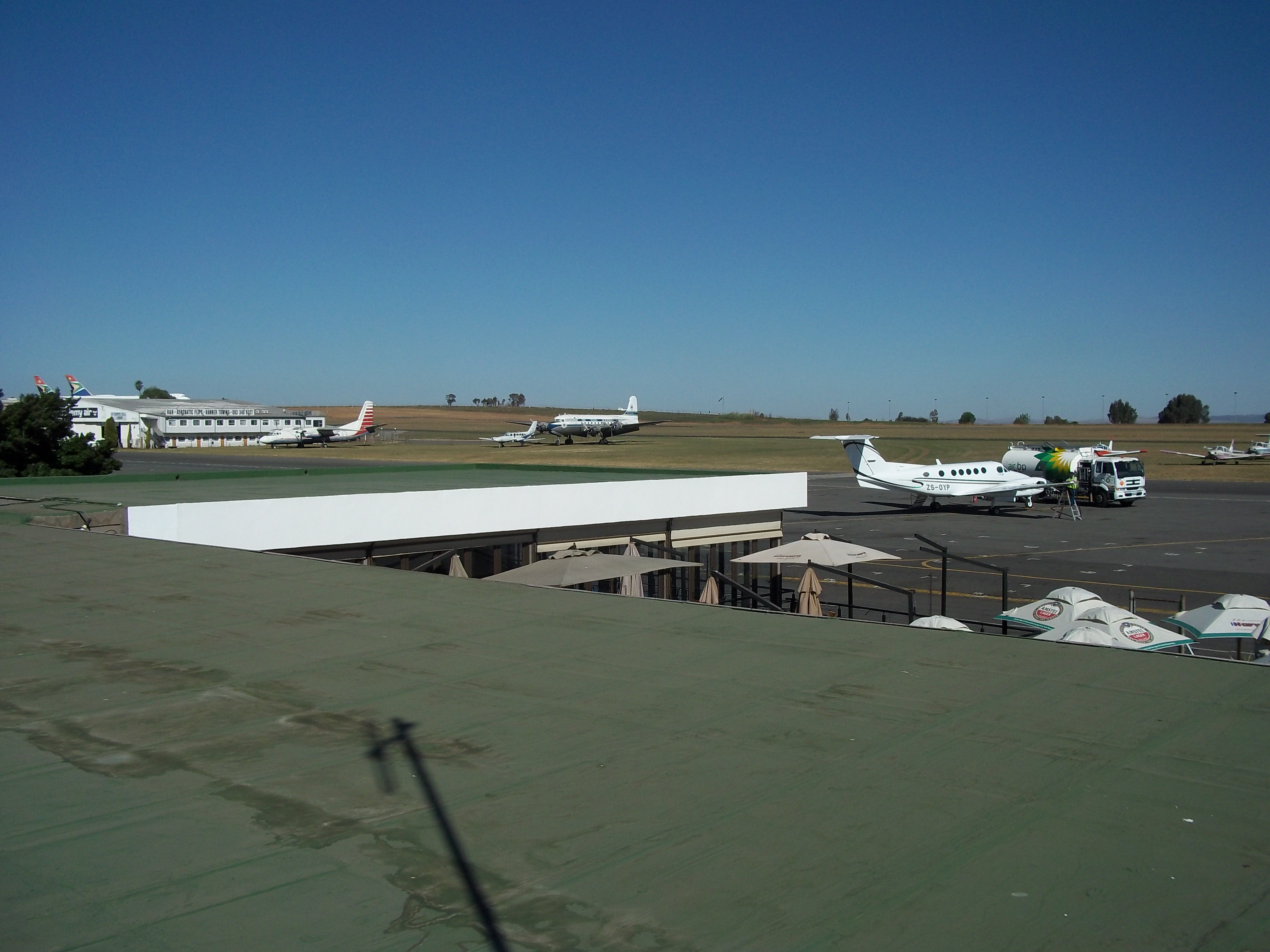 Rand Airport, Germiston, South Africa. View from the observation deck. The tails of the two Boeing 747s donated to the museum by South African Airways can be seen in the background on the left.